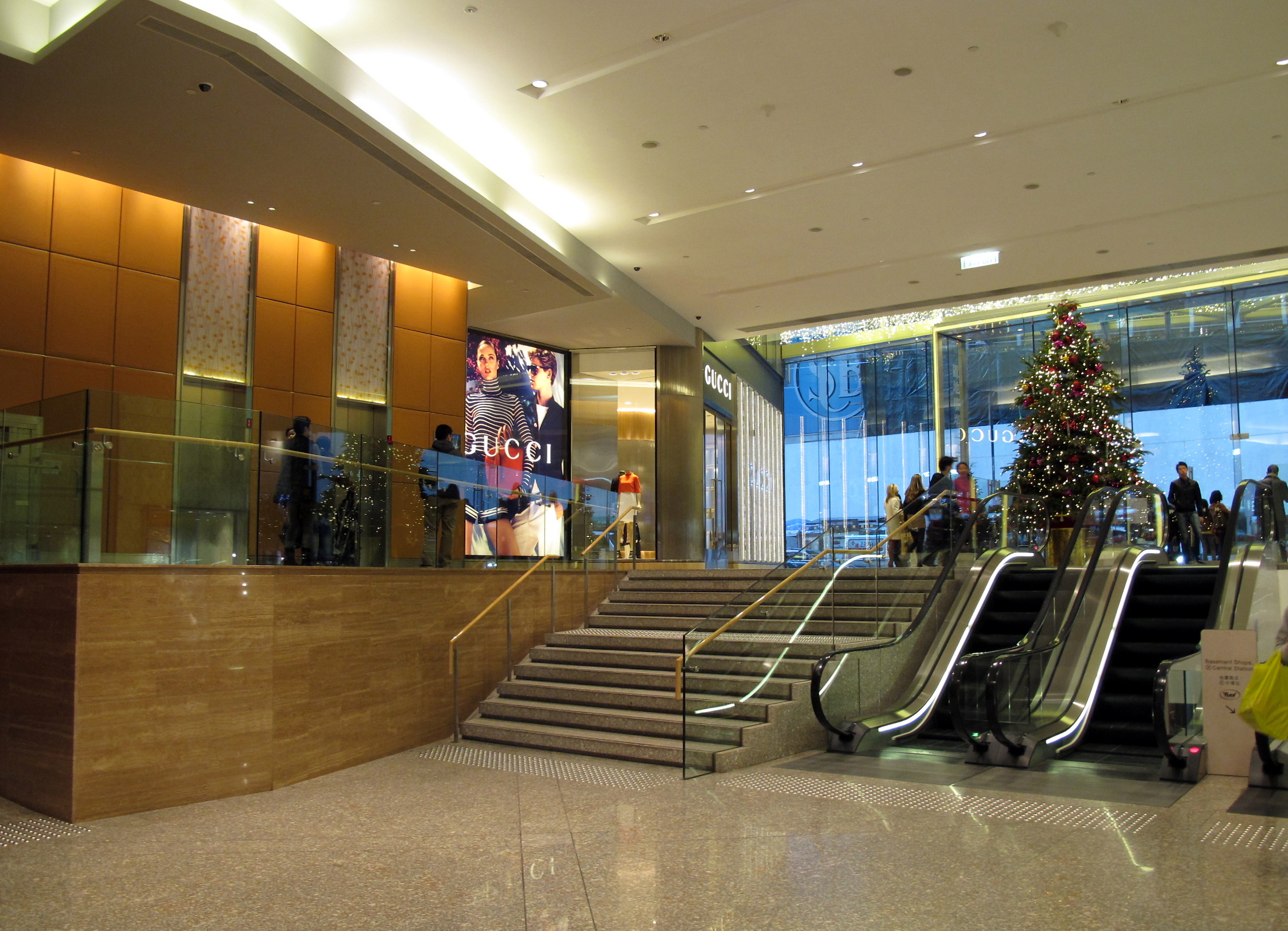 York House Enterance